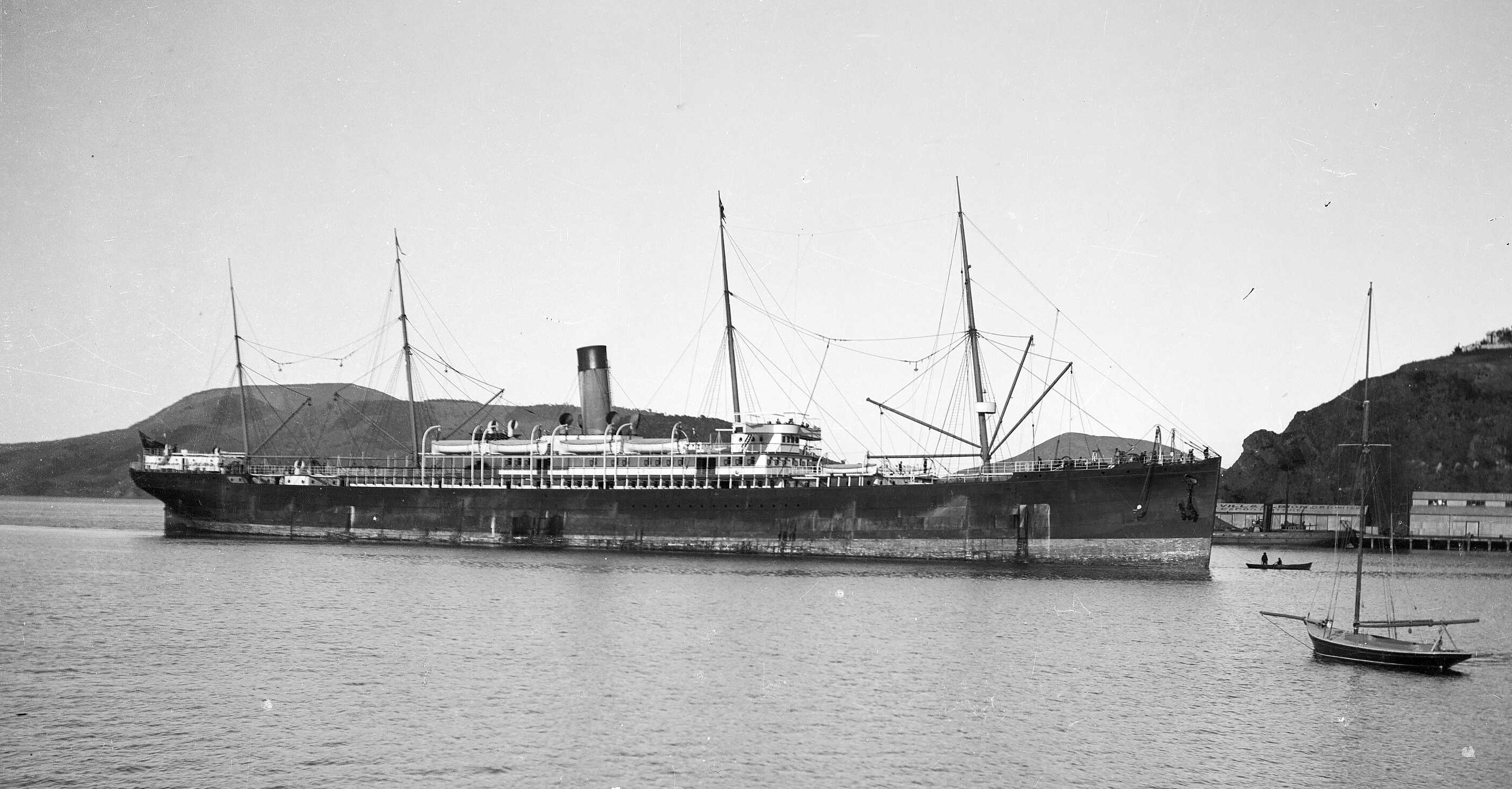 White Star Liner SS Gothic in Port Chalmers, Dunedin, New Zealand 1893-1899